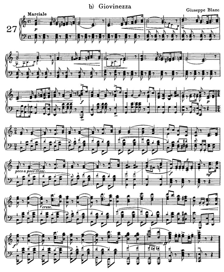 Giovinezza. Italian fascist party hymn. Music sheet image. Text by Salvator Gotta, music by Giuseppe Blanc (1886 – 1969).